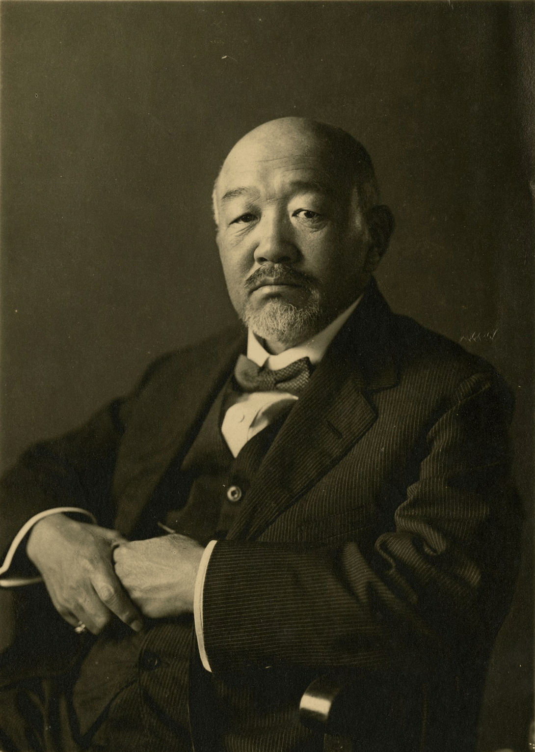 Kuroda Seiki, from (taken before 1923, on a public website, available to all - should be public domain)